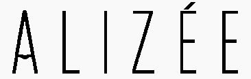 Alizée logo used in 2012's album.